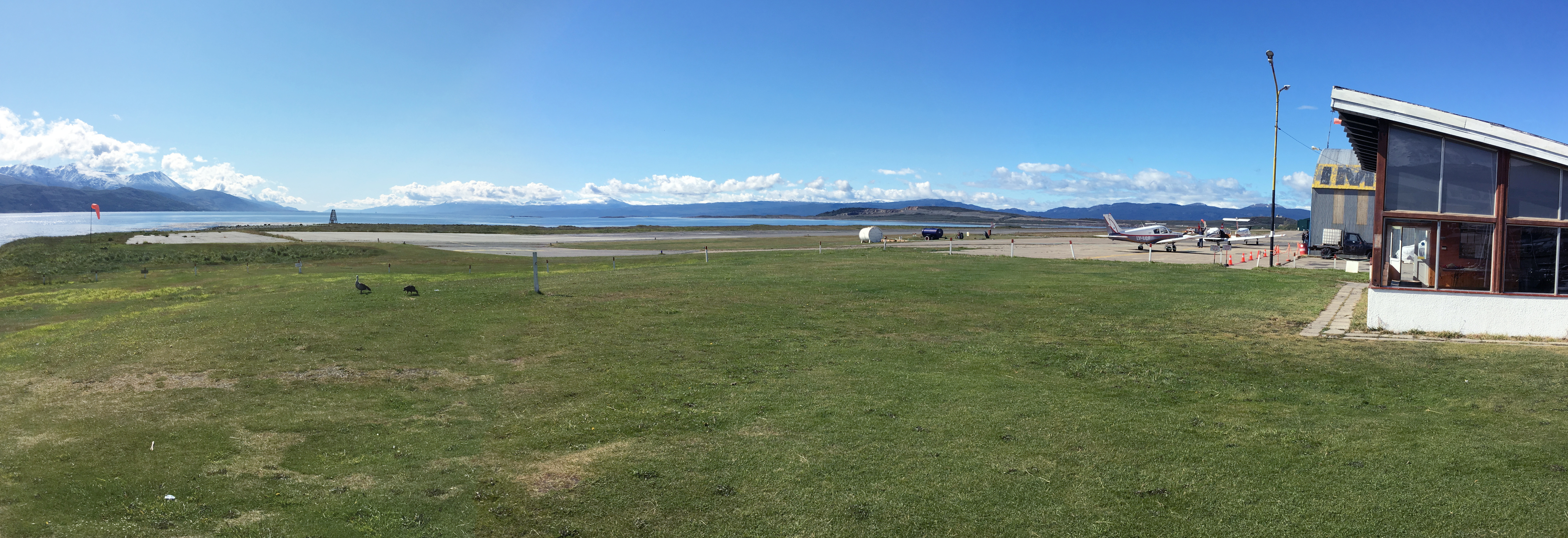 The runway and buildings at Aeroclub Ushuaia in Argentina with the Beagle Channel in the background